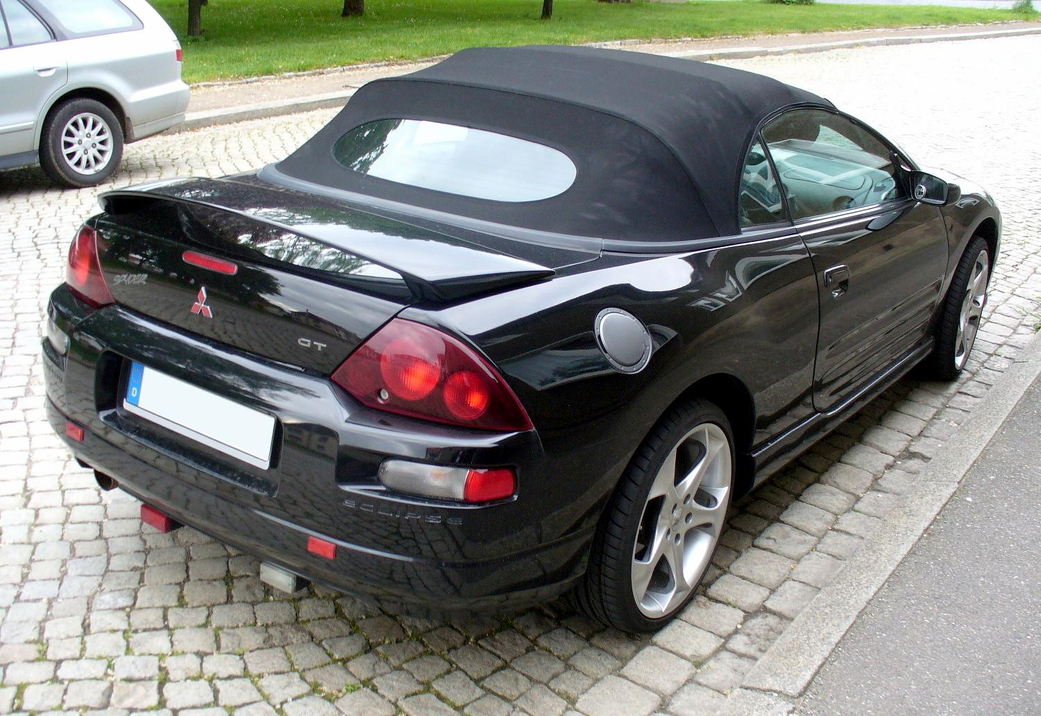 Mitsubishi Eclypse Spyder